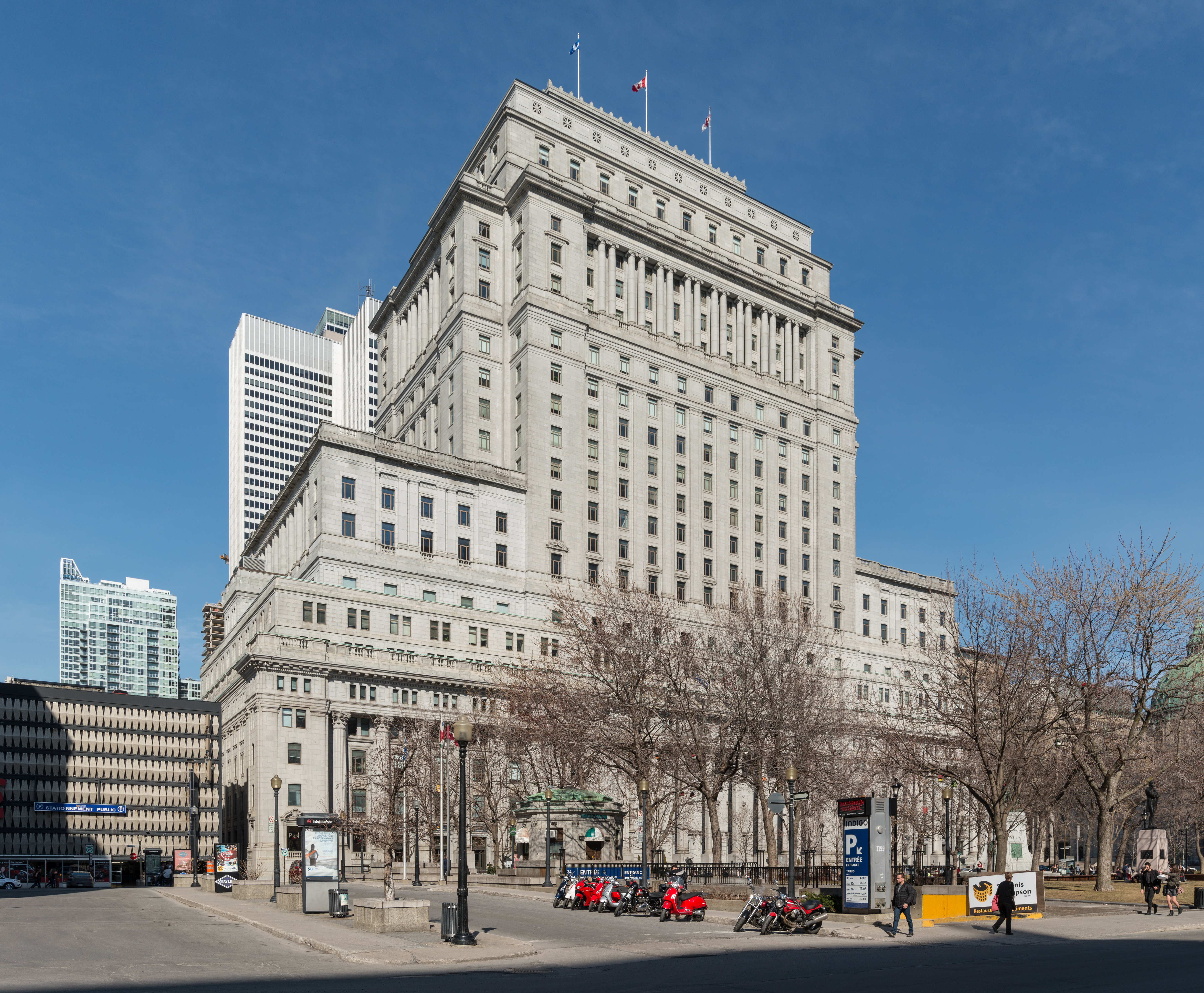 A west view of the Sun Life Building, Montréal